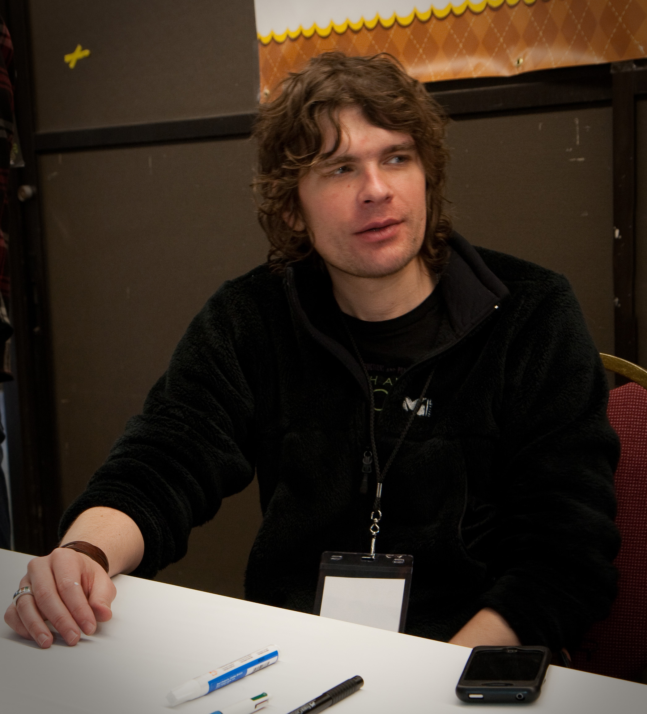 Paul Pope at the Stumptown Comics fest in 2010.